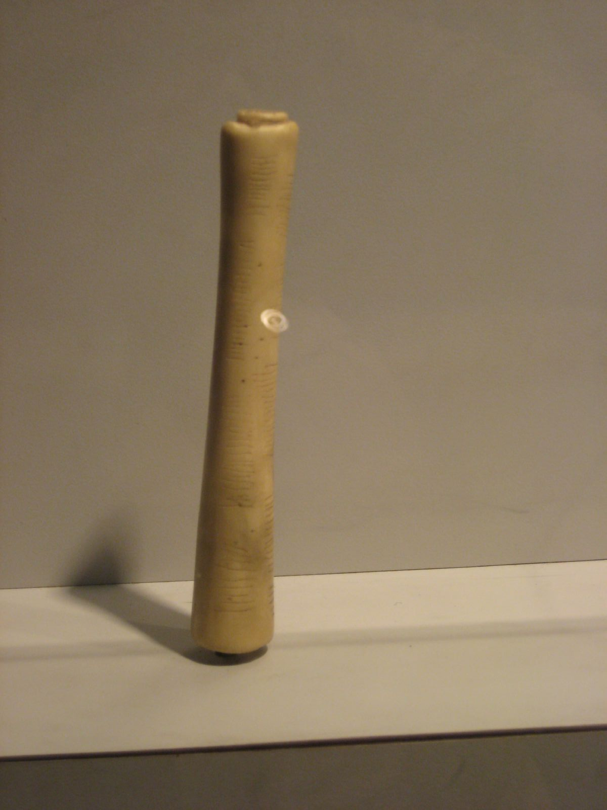 "Inscribed with three rows of notches believed to mark the passing of lunar months...found near the source of the Nile River, in Egypt, dates from about 8500 B.C." I wonder how they know what it was supposed to do??